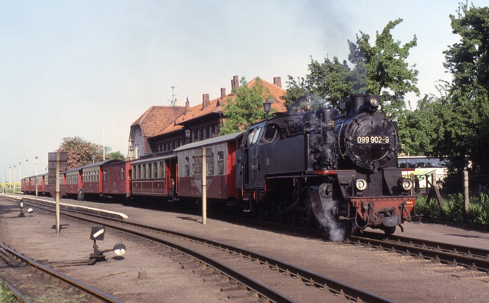 One of my objectives of a visit to the former East Germany in May 1992 was to cover several of the narrow gauge, steam operated systems. At the time it was not known what their fate might be, so better safe than sorry I covered them. Fortunately all have survived and best part of 20 years later they are still operating today albeit in private hands as tourist railways. Two lines in the northern part of the former East Germany include this one from Bad Doberan through to Ostseebad Kühlingsborn West. Having run round, 099.902 is ready to work train 14137, 09:06 Ostseebad Kühlingsborn West to Bad Doberan on 26 May 1992. The system is unique to the German systems being 900mm gauge, hence locos are numbered in the 099.9xx series. Known as the Bäderbahn Molli (or just "Molli") it is famous for the street running section through Bad Doberan soon after leaving the station it connects to the rest of the DB network. The operation was taken over in 1997 and today services are in the hands of Mecklenburgische Bäderbahn Molli GmbH.